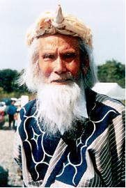 Tatsujirō Kuzuno